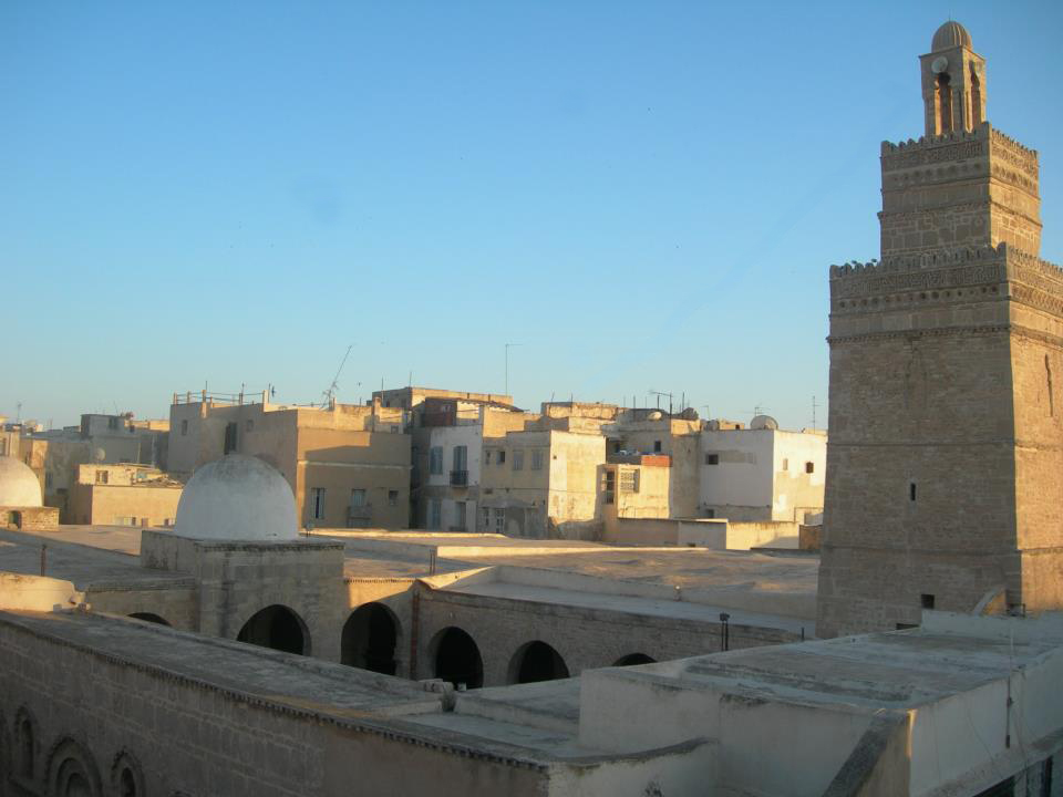 Sfax Great Mosque Roof